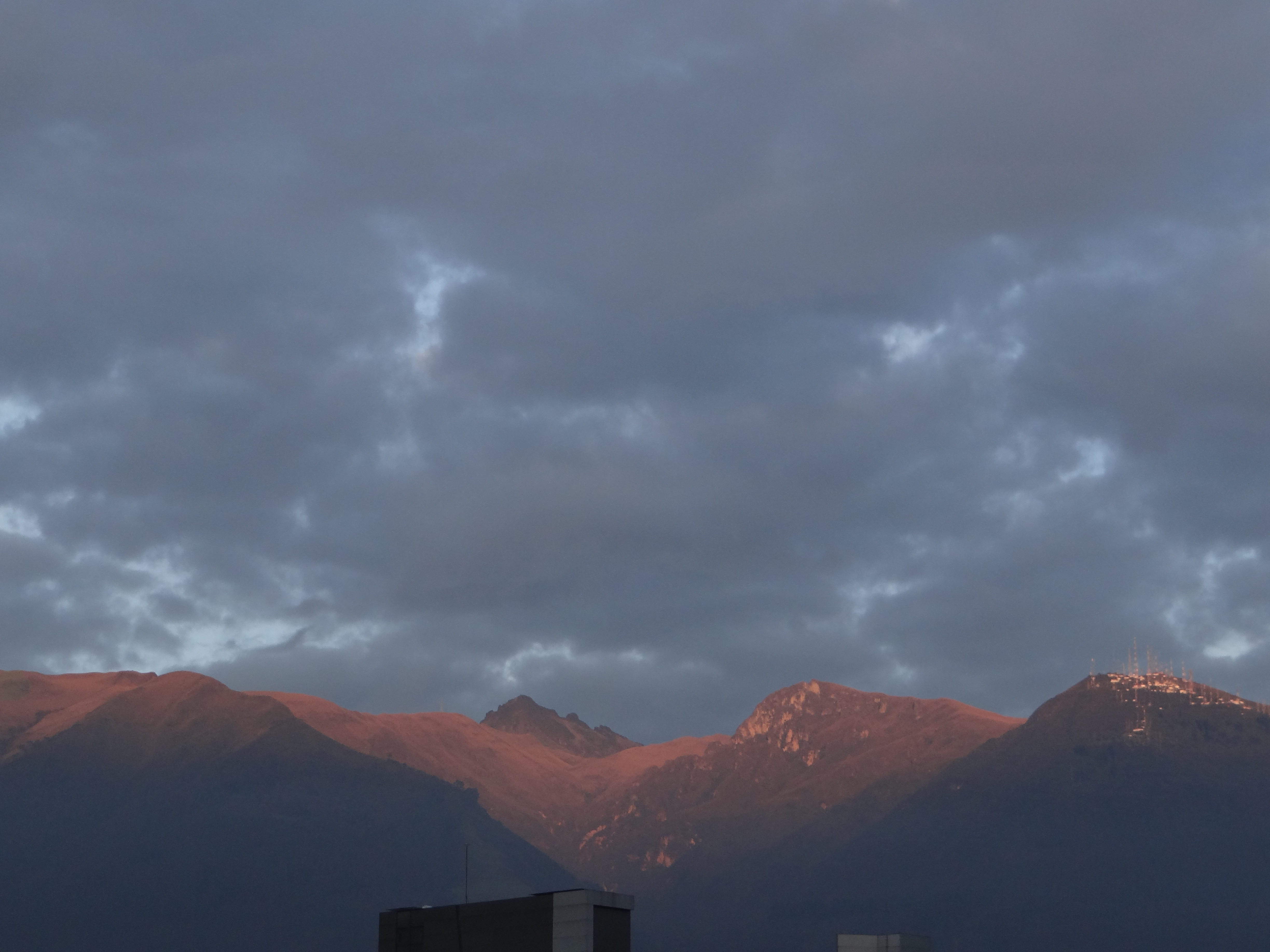 Pichincha is an active stratovolcano in the country of Ecuador, whose capital Quito wraps around its eastern slopes. The mountain's two highest peaks are the Guagua (4,784 metres (15,696 ft)), which means "child" in Quechua and the Rucu (4,698 metres (15,413 ft)), which means "old person". The active caldera is in the Guagua, on the western side of the mountain. Wikipedia